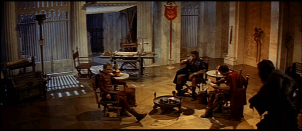 Screenshot from the trailer for the film Cleopatra.